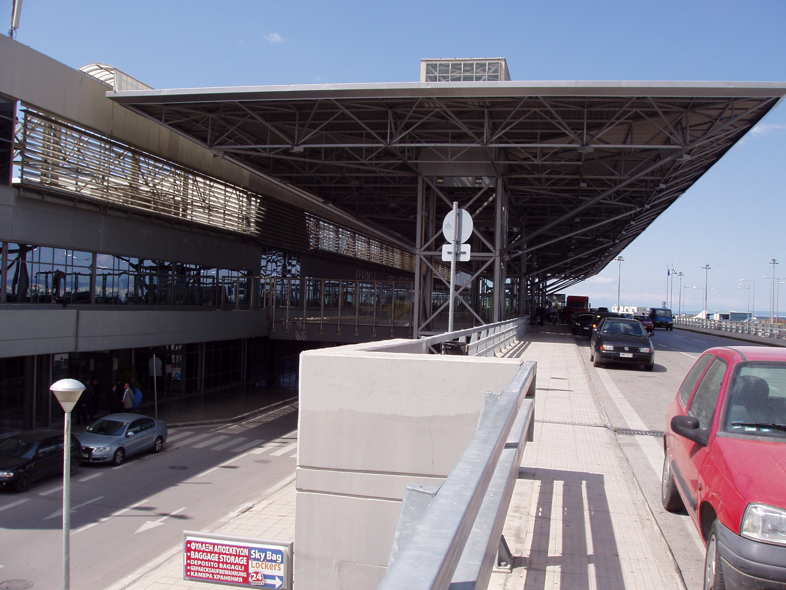 Thessaloniki Internation Airport "Macedonia"